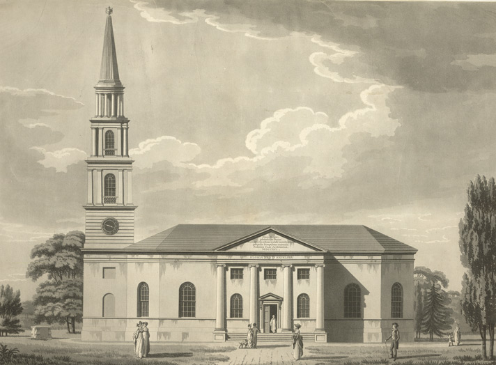 "Elevation of the Church at Horbury near Wakefield," aquatint with etching, by T. Malton, 1791. View of SS Peter and Leonard's parish church, Horbury, Yorkshire. Courtesy of the British Library, London.